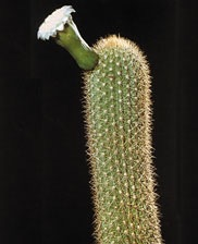 Holotype collection, Ceara, Brasil